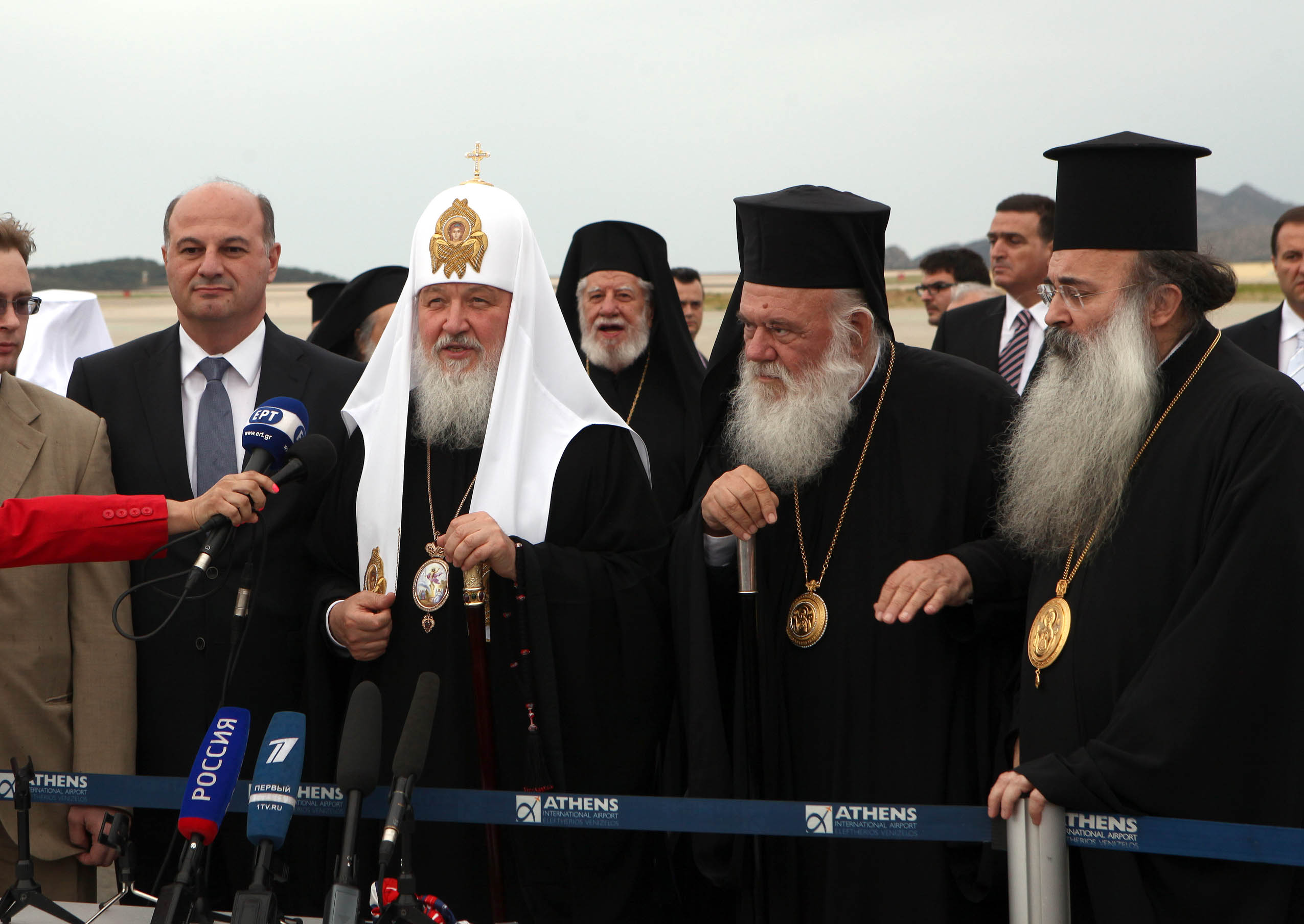 The Saturday, June 1, Deputy Foreign Minister Costas Tsiaras, representing the government, welcomed the Patriarch of Moscow and All Russia Kirill at Athens International Airport "Eleftherios Venizelos"